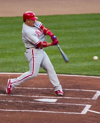 Carlos Ruiz swings the bat and is about to make contact in a game against the Baltimore Orioles on June 8, 2012